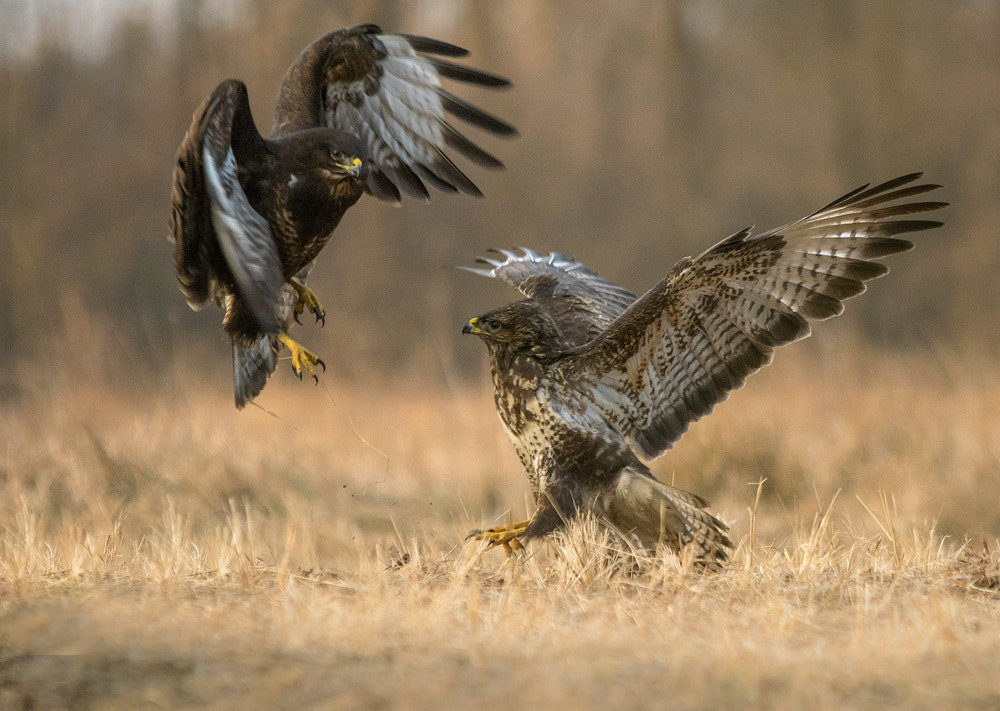 500px provided description: Battle [#sky ,#birds ,#winter ,#bird ,#animals ,#beautiful ,#animal ,#hungary ,#hide ,#wildlife ,#wild ,#hidephotography]